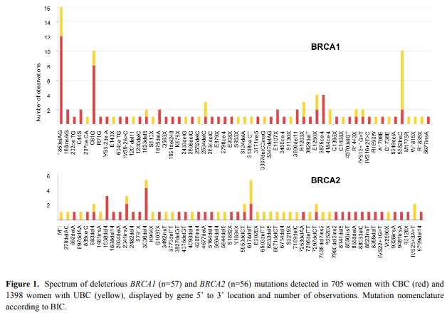 Gráfico de mutações deletérias nos genes BRCA1 e BRCA2 de portadoras de câncer de mama